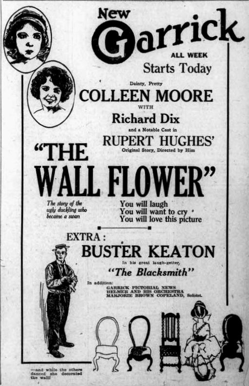 Newspaper advertisement for the American film The Wall Flower (1922) with Colleen Moore, on page 3 of the July 15, 1922 Duluth Herald.